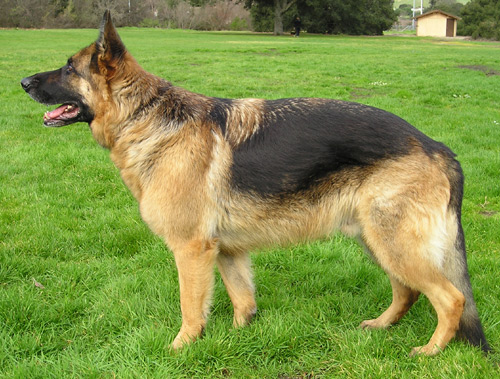 German Shepherd Dog "Colby VomTannhauser, AD", side view. Taken at the SMART/USDAA dog agility competition in Salinas, CA.